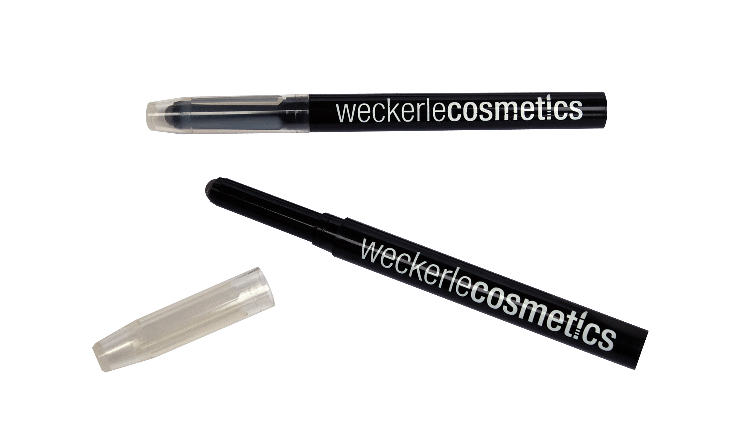 Cosmetics_Pen_made_from_Cellulose_Acetate_Biograde